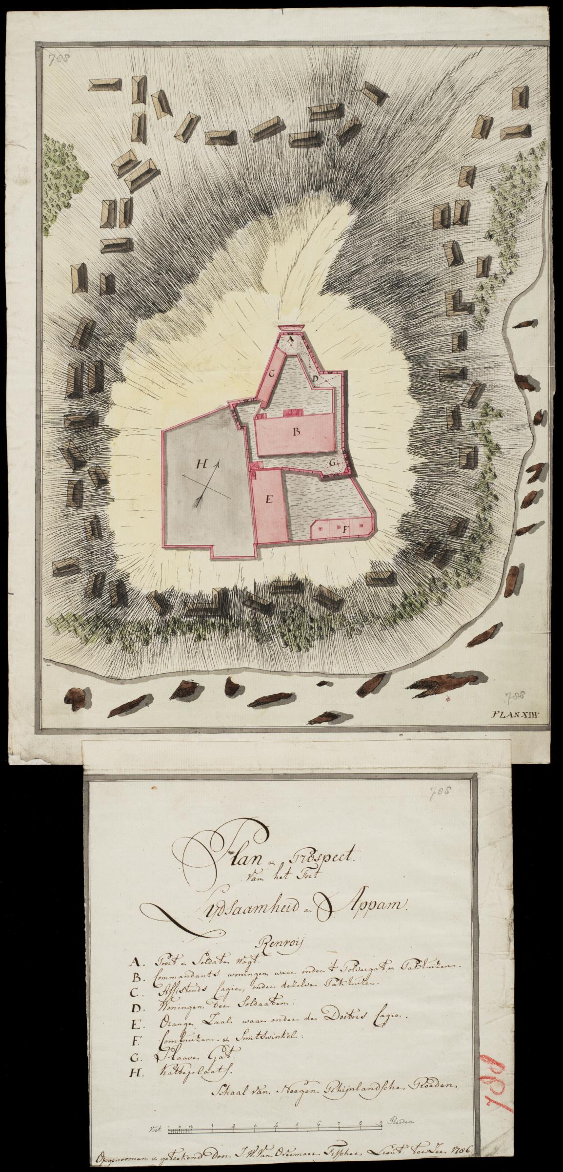 Floor plan of the Lijdzaamheid fort at Apam. Title in the Leupe catalogue (NA): Plan en Prospect Van het Fort Lydsaamheid aan Appam. Plan & Prospect Van het Fort Lydsaamheid aan Appam. The description attached to the chart measures 26 x 26 cm. Notes on reverse: No. 32 Het Fort Lijdsaamheid. Register 8, Deel 1, Folio 35, Portefeuille .. [inscribed on a blue label] / 482 [stamped in bold on a small label]. Key: Renvoij / A. Poort en Soldaten Wagt. / B. Commandants woningen waar onder 't Polvergat & Pakhuizen. / C. Assistends Logies, onder dezelven Pakhuizen. / D. Woningen der Soldaaten. / E. Orangen Zaal, waar onder den Doctors Logies. / F. Combuizen & Smitswinkel: / G. Slaaven Gat. / H. Katteplaats. Top left, bottom right on the chart, top right and centre right on the description: 788 [in pencil]. Bottom right: Plan XIII.